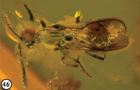 Paratype female of Aspidopleura baltica, dorsal habitus.